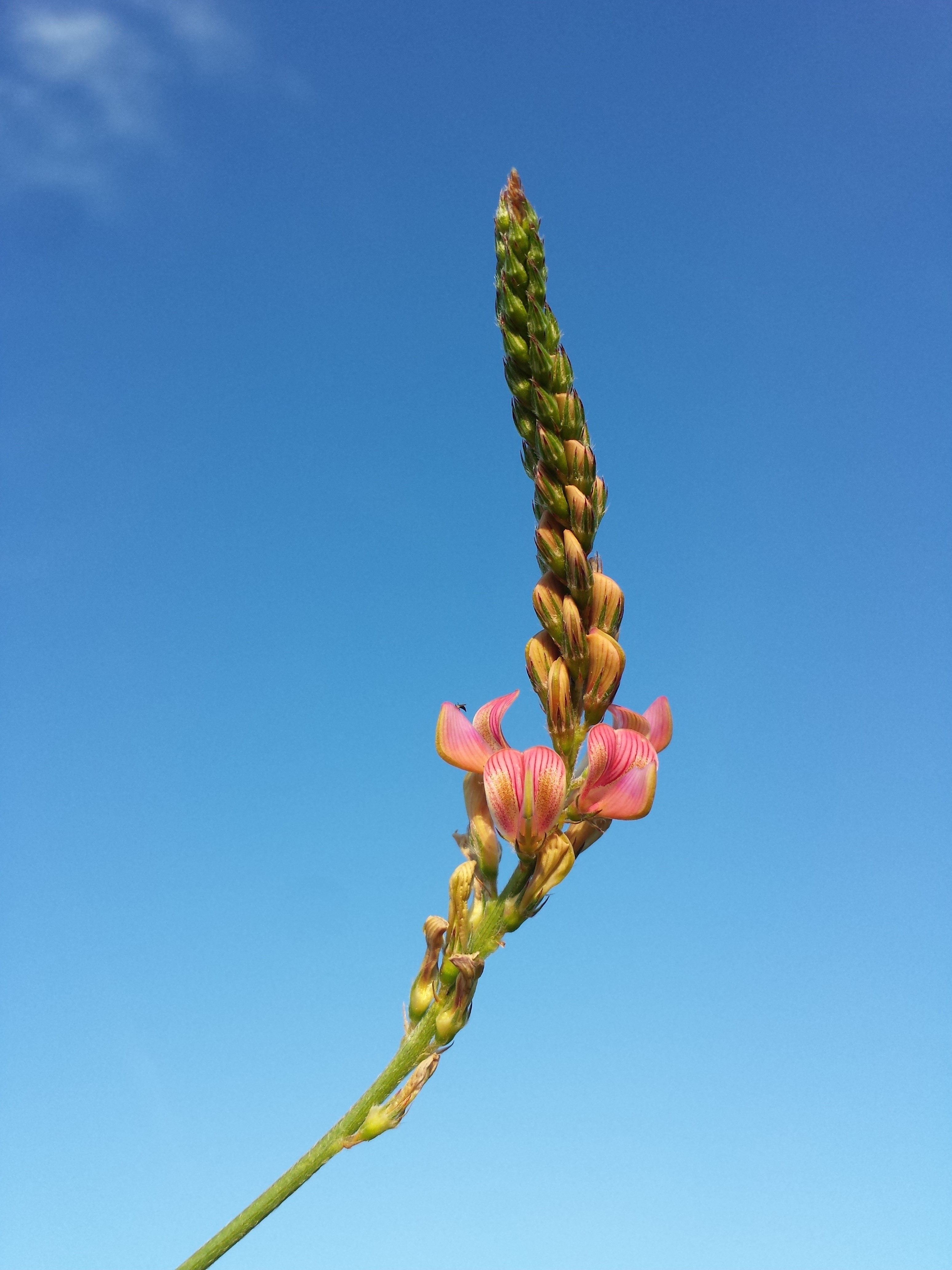 Inflorescence Taxonym: Onobrychis arenaria subsp. arenaria ss Fischer et al. EfÖLS 2008 ISBN 978-3-85474-187-9 Location: Steinberg near Niederhollabrunn, district Korneuburg, Lower Austria - ca. 375 m a.s.l. Habitat: semi-dry grassland